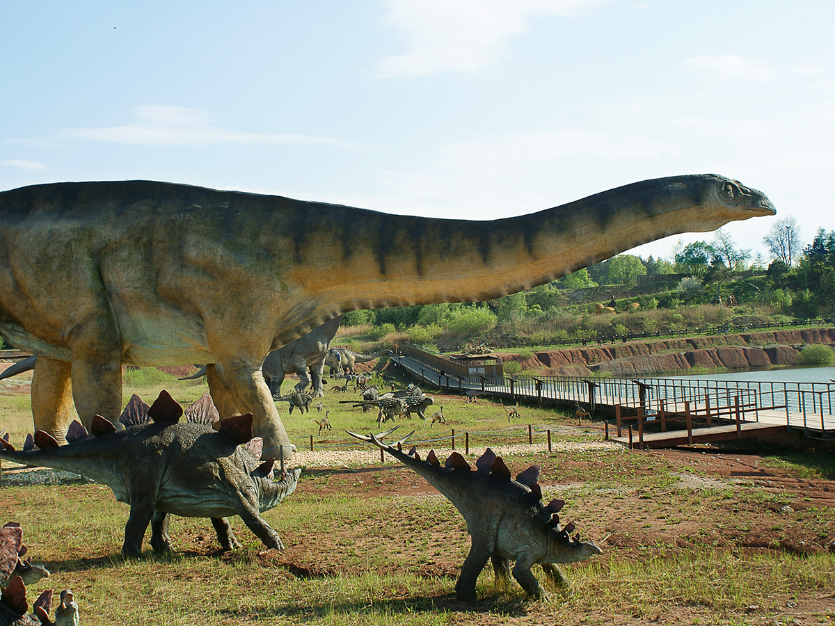 Dinozaury w Juraparku w Krasiejowie.